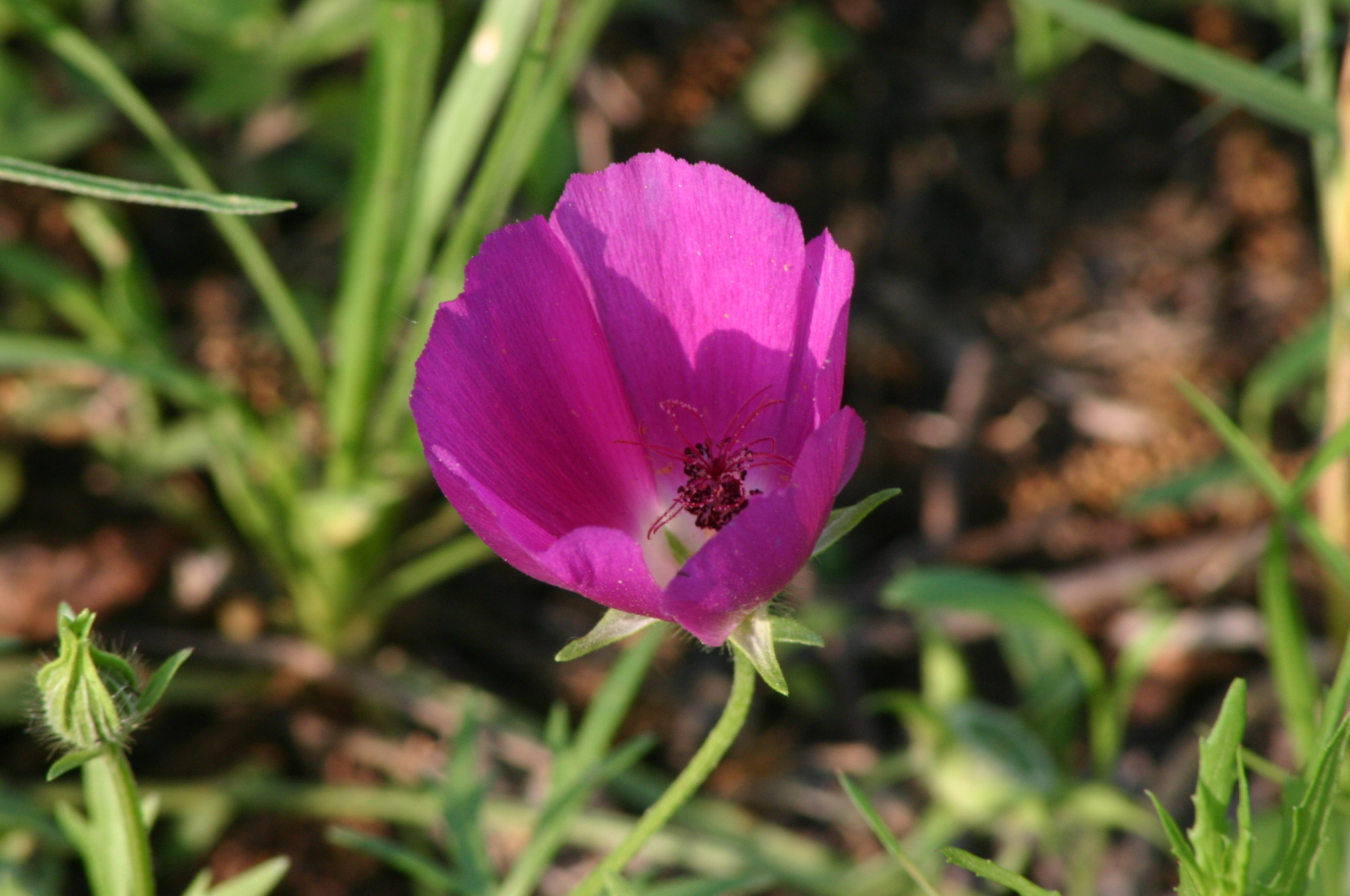 (Callirhoe involucrata) Roadside wild winecup details.